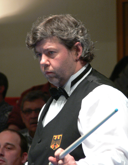 German carom billiards player